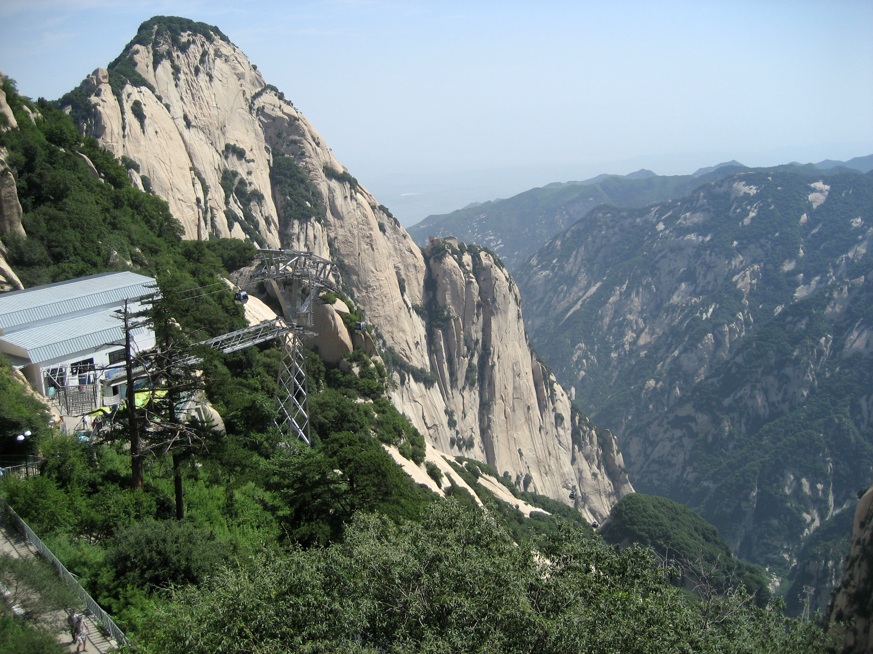 The upper station for the cable car system on Mount Hua